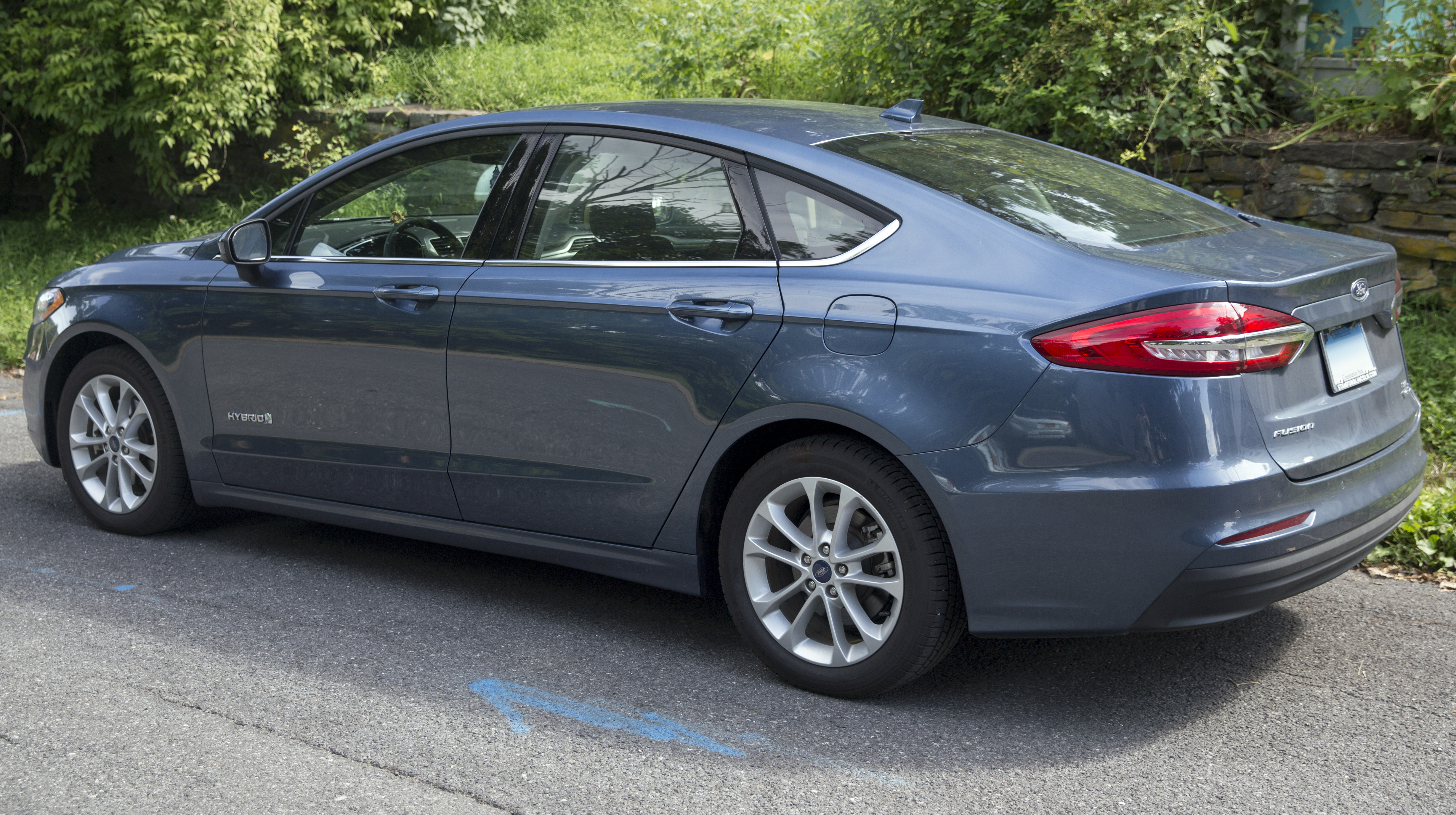 A 2019 Ford Fusion Hybrid SE in Saugerties, NY. Blue metallic, built in Hermosillo, Mexico.